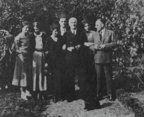 A photo of Skoropadskiy family standing in the garden of their mansion in Wansee, Germany